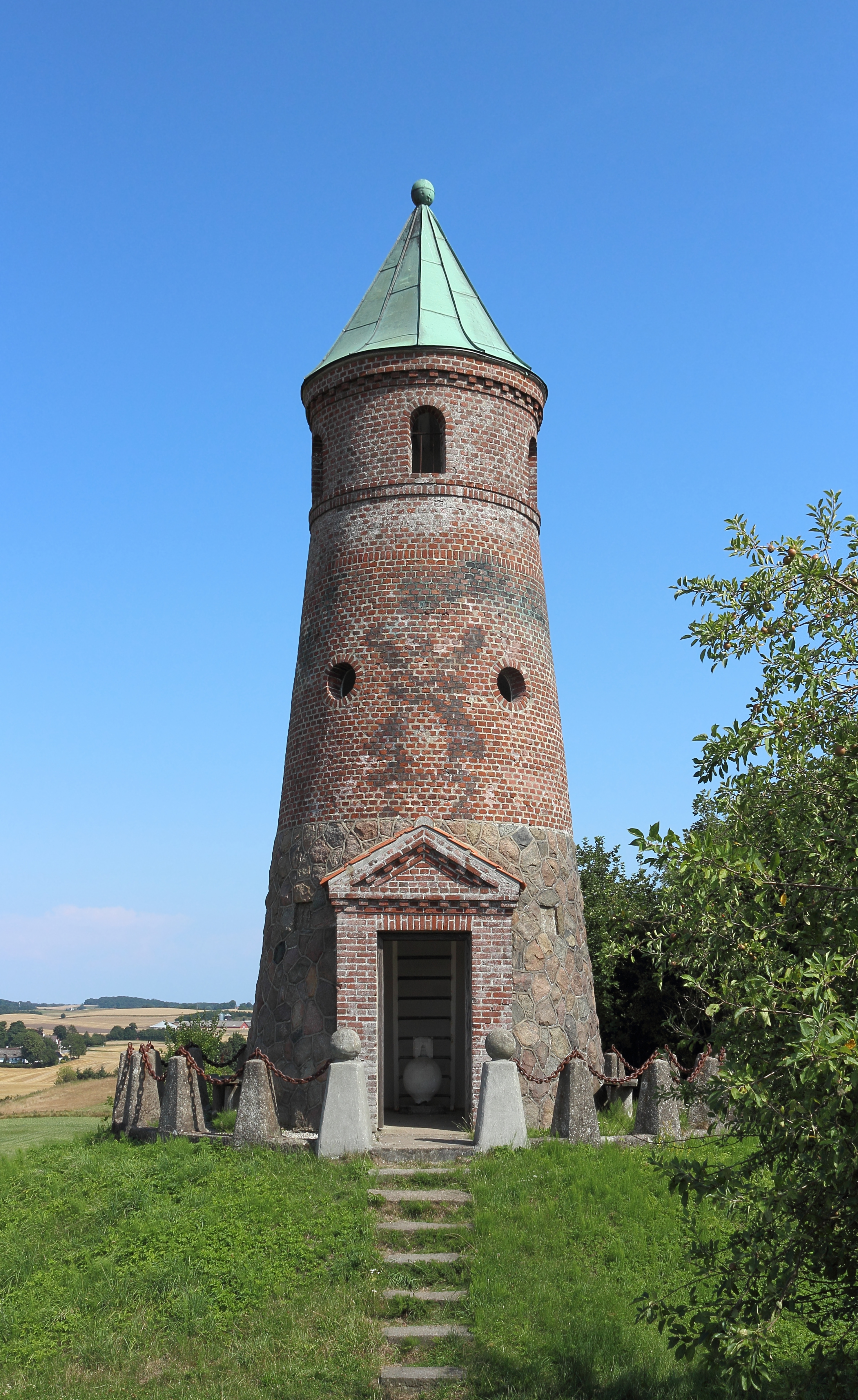 Todbjerg Tower